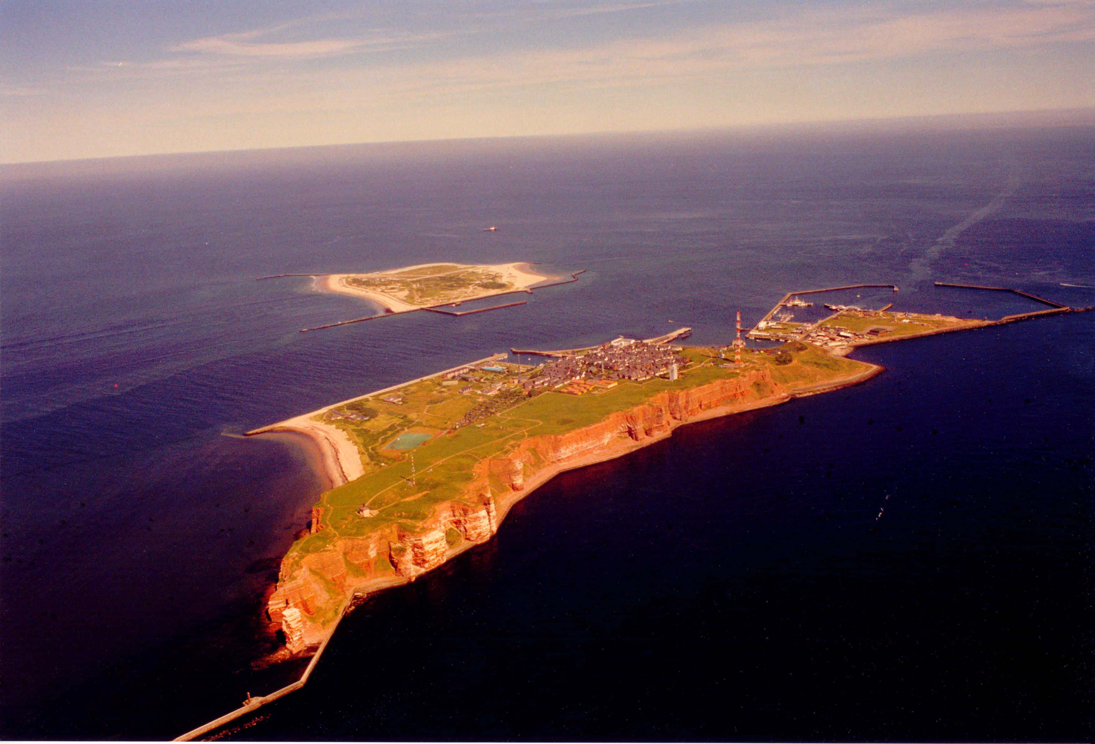 Helgoland in bird's-eye view (the main island in the foreground and the islet of Düne in the background)